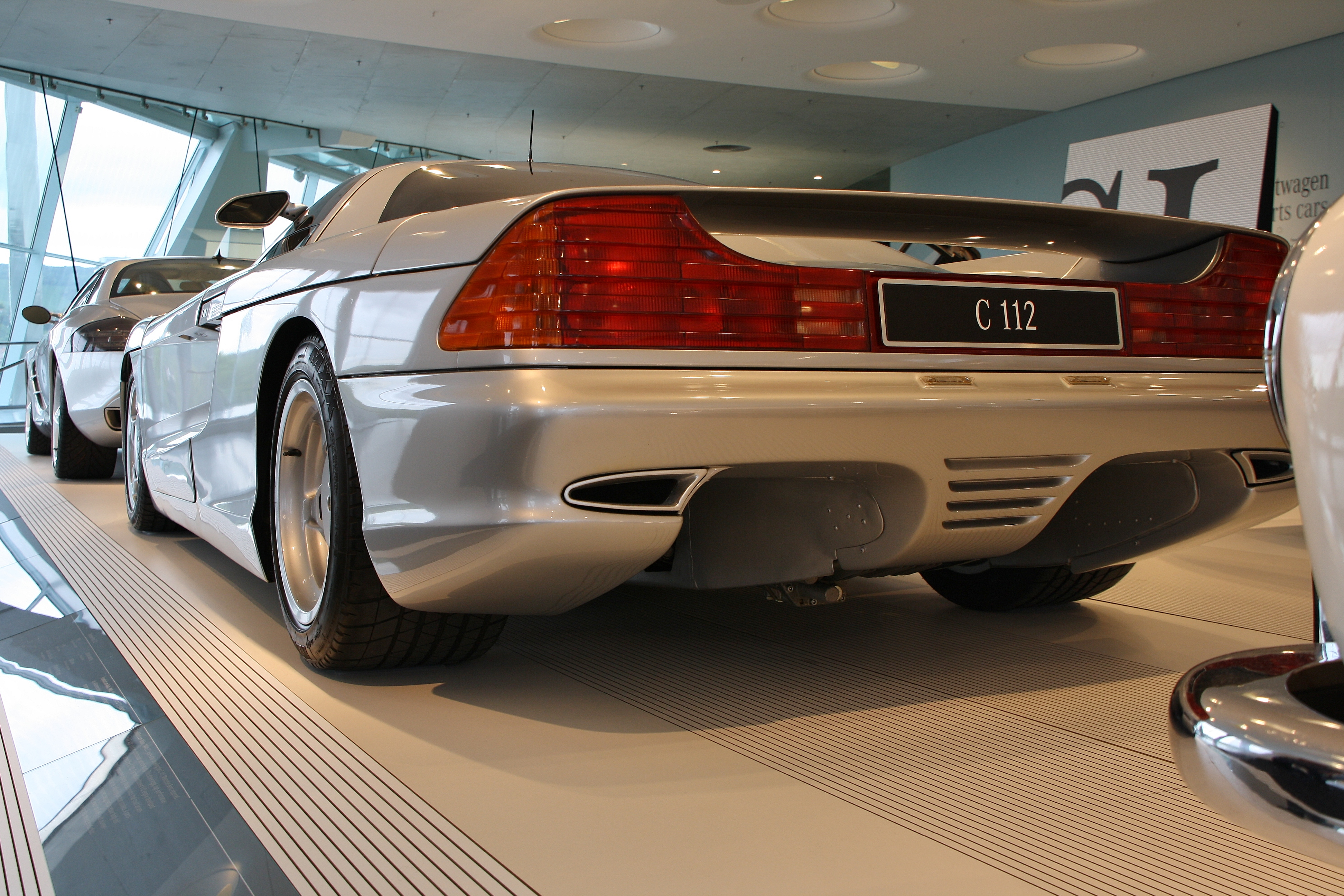 Mercedes-Benz C112 in Mercedes-Benz Museum, Stuttgart, Germany